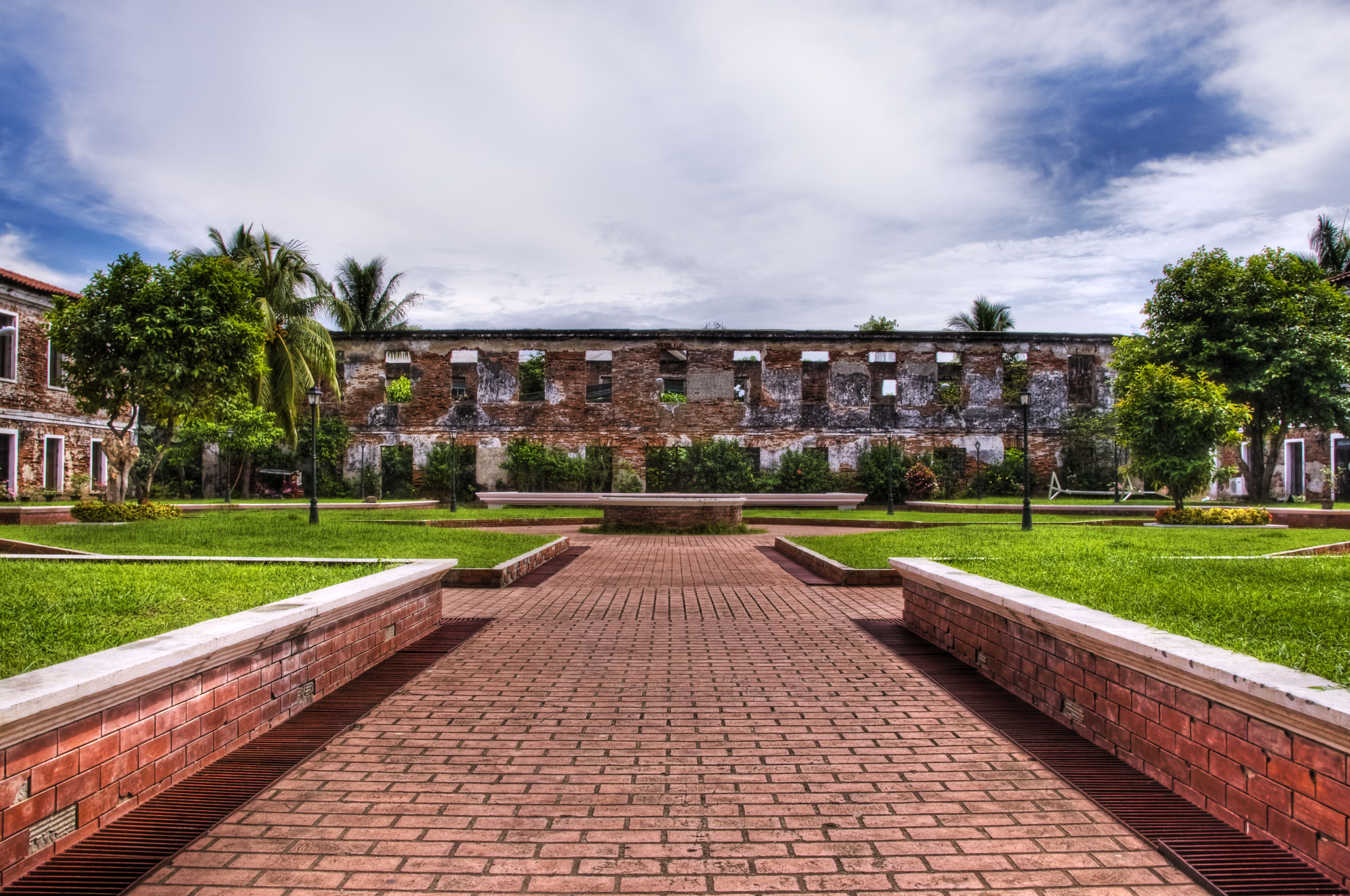 Fort Pilar is one of the main tourist spots in Zamboanga City. The fortress when viewed from the top is symmetrical, and I tried to capture that by taking a photo from the inside. Nowadays, Fort Pilar has been converted to a museum showcasing all types of sea creatures, native woodwork, sunken Chinese treasures, corals, and the like.